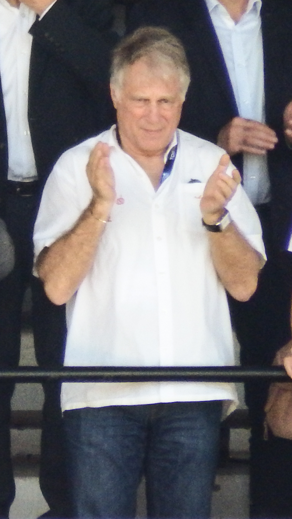 Pro D2 2014-2015 — 10 May 2015, Stade Maurice-Boyau. Match between: US Dax — Biarritz Olympique